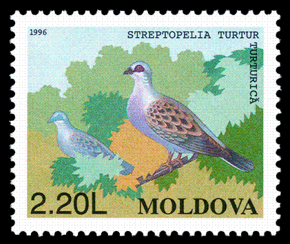 Stamp of Moldova